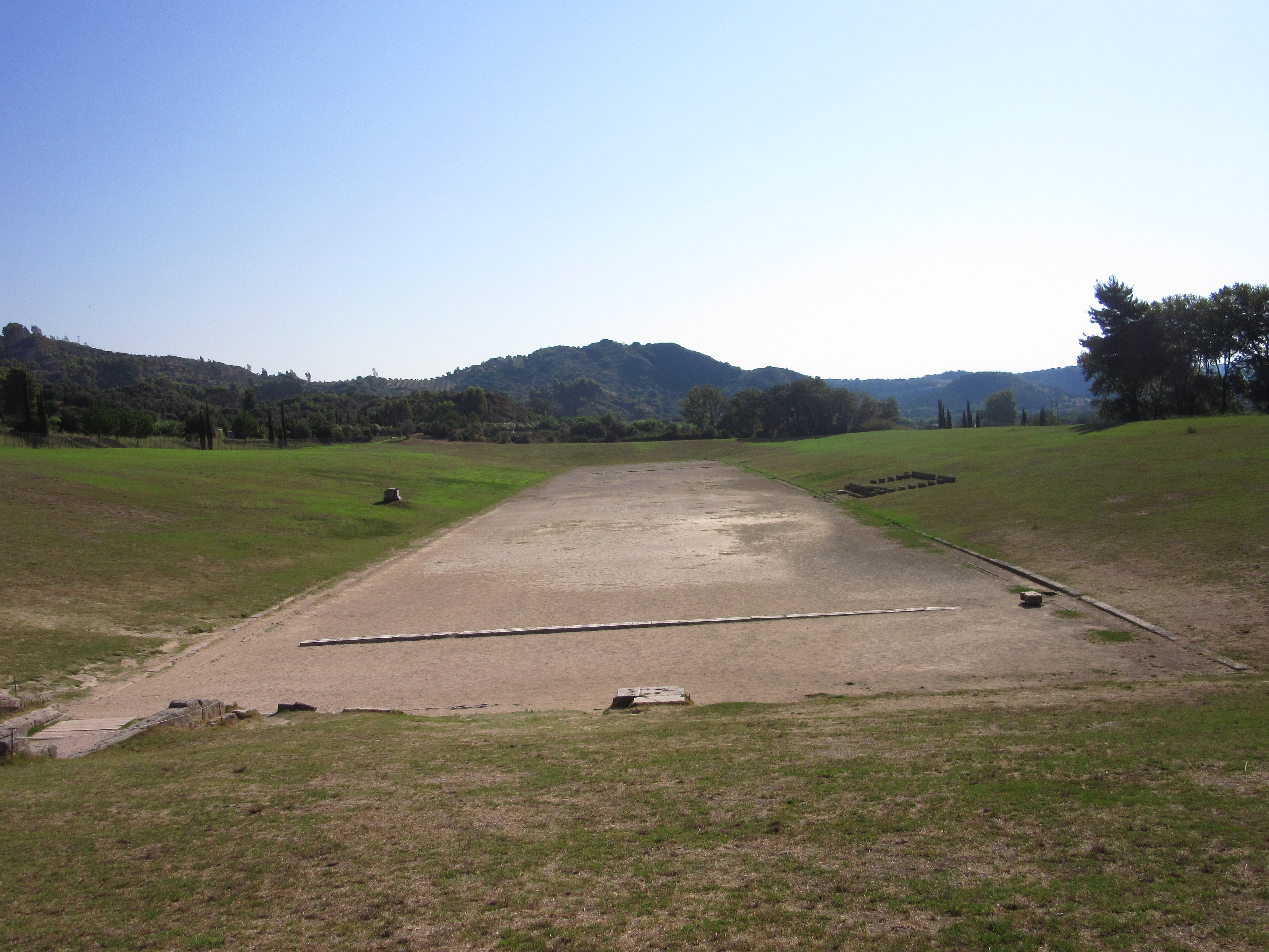 The Stadium in Olympia, Greece